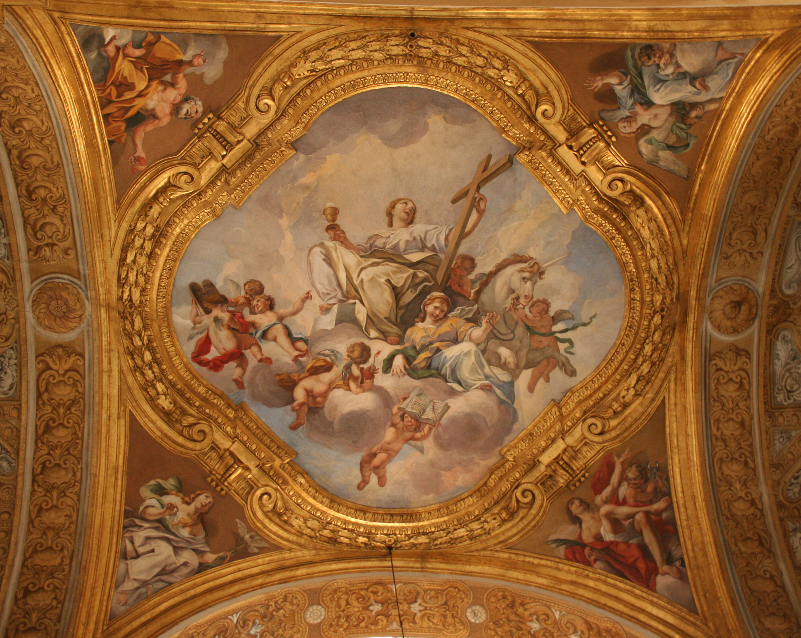 Faith - Frescoe by Luigi Garzi in the vault above the left aisle in Basilica San Ambrogio e Carlo al Corso in Rome.